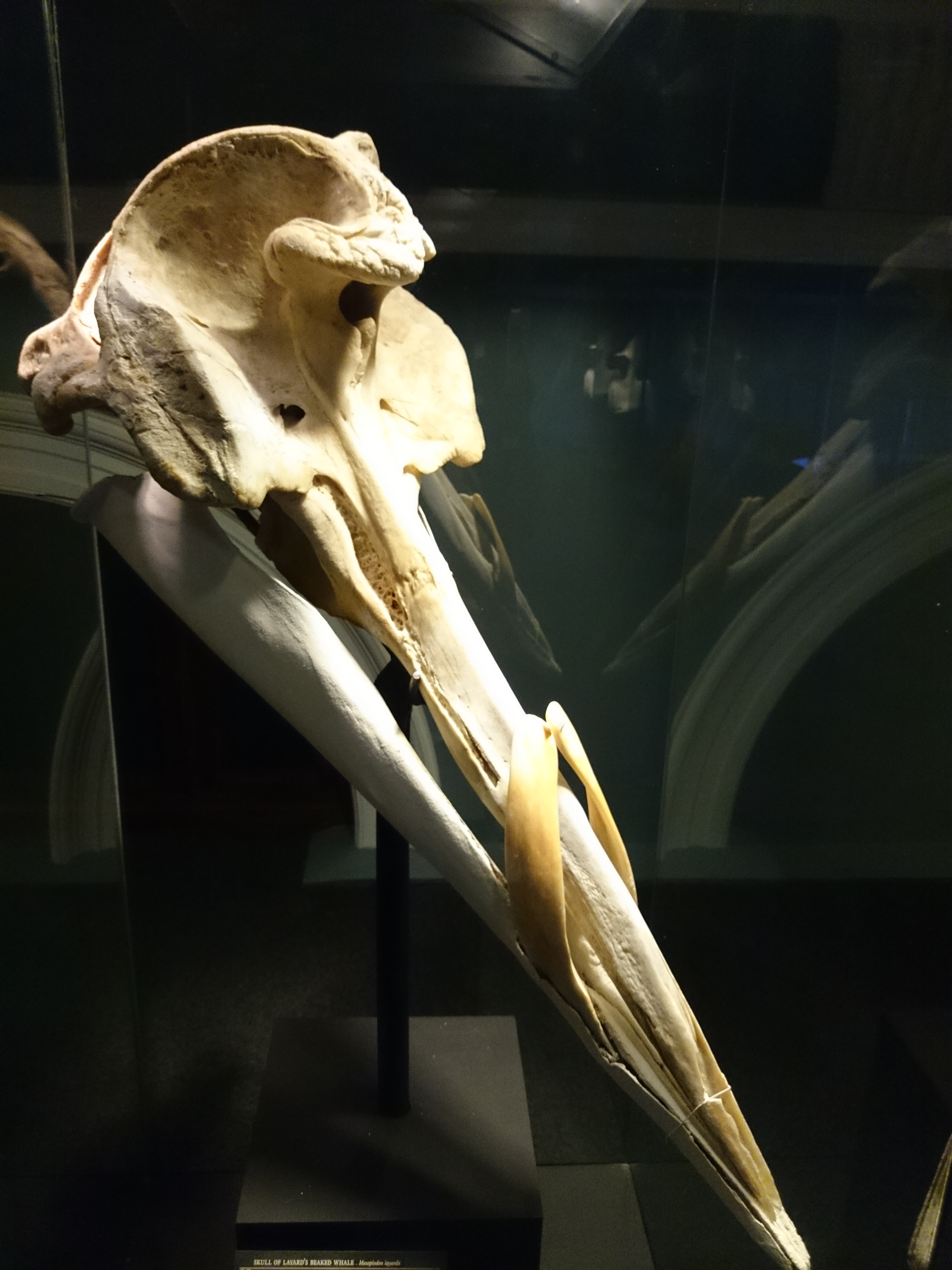 Mesoplodon layardii. How this whale feeds remains a mystery due to the bizarre shape of its lower jaw teeth which, in the male, become greatly elongated or strap-shaped. The teeth have a small blunt enael tip and arch over the beak, nearly meeting one another. This puzzling growth patterns allows the jaws to open only a short distance and may severely restrict the animal's ability to feed.